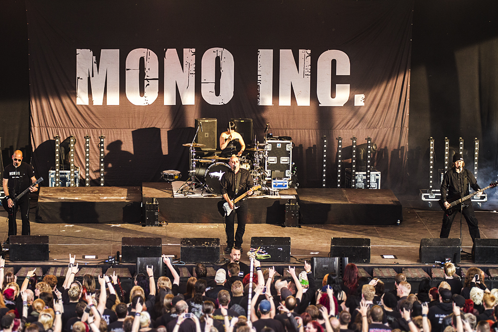 Mono Inc., photographed at the Blackfield Festival 2013 in Gelsenkirchen, Germany